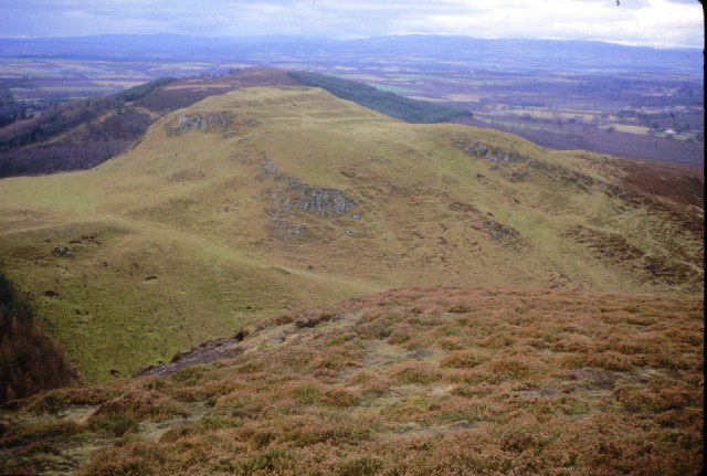 Dunsinane hill. Made famous by Shakespeare, though the earthworks of the iron age castle visible in the picture far antedate Macbeth. Dunsinane wood is however visible from the hill.